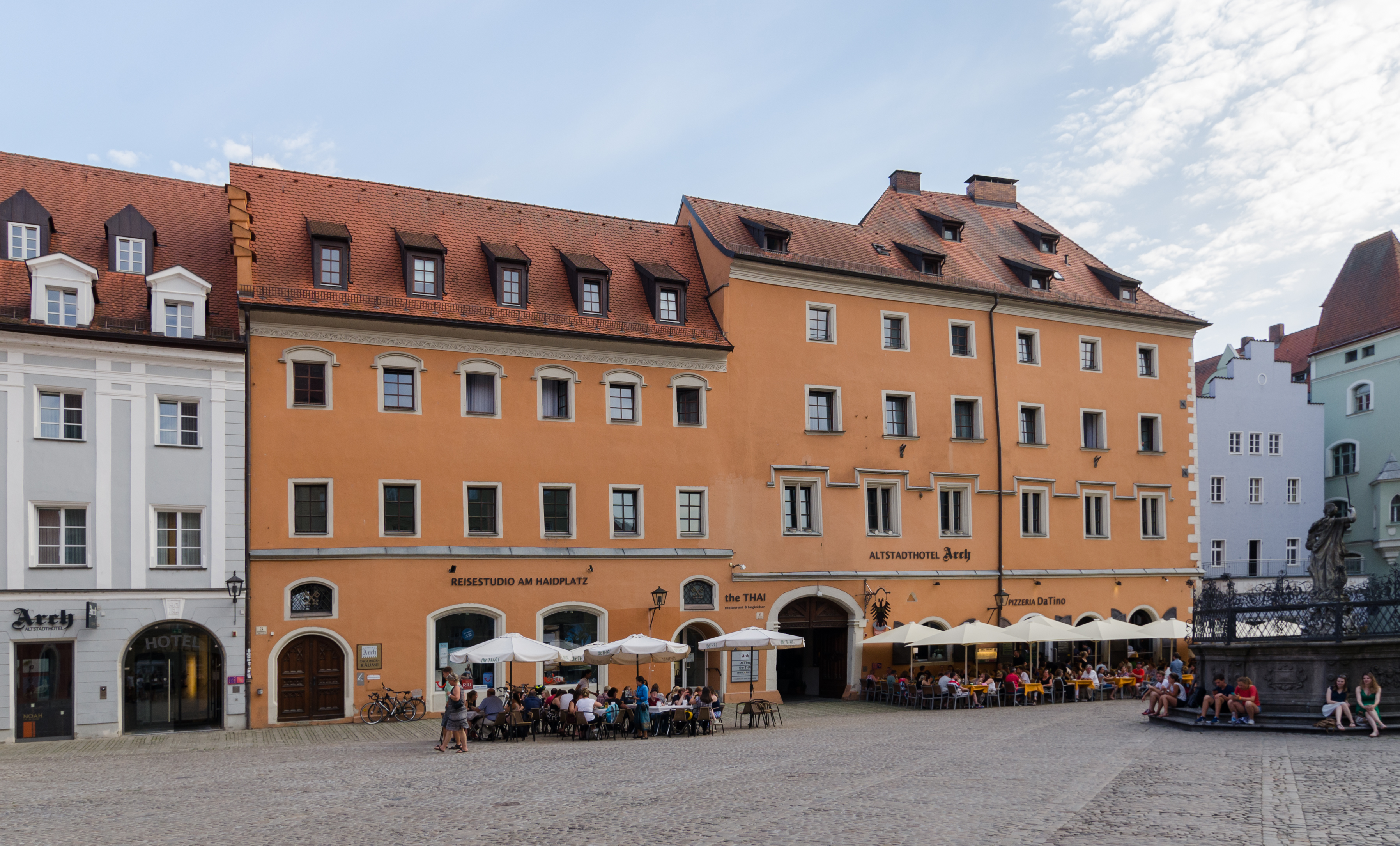 Regensburg (Bavaria, Germany) – inner city – square Haidplatz – hotel and restaurant building, former House "Zur Arch"